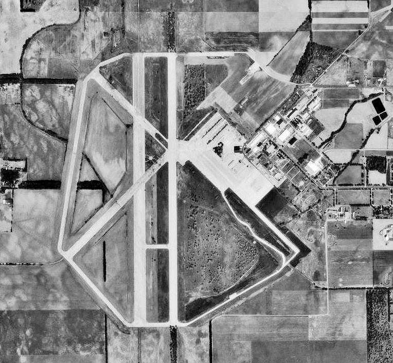 USGS orthophoto of Hutchinson Air Force Station, Kansas